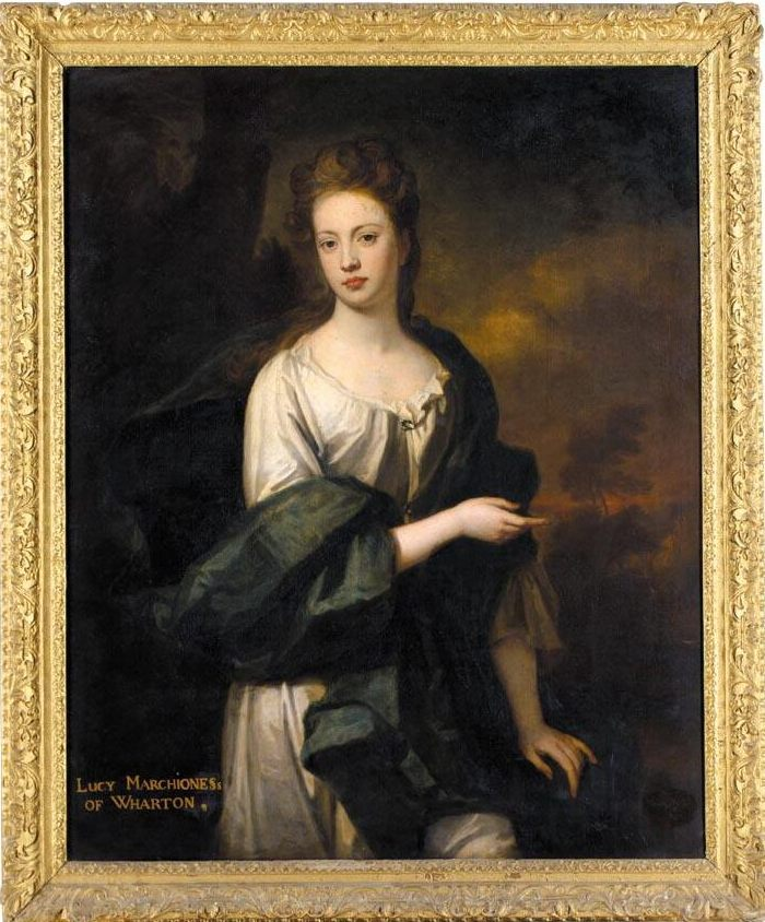 Sir Godfrey Kneller, Bt. 1646 - 1723 PORTRAIT OF THE HON. LUCY LOFTUS, MARCHIONESS OF WHARTON (1670-1717) three-quarter length, wearing a white dress and a blue cloak inscribed l.l.: Lucy Marchioness of Wharton oil on canvas, in a carved wood frame 122.5 by 97.5cm.; 49 by 39in.